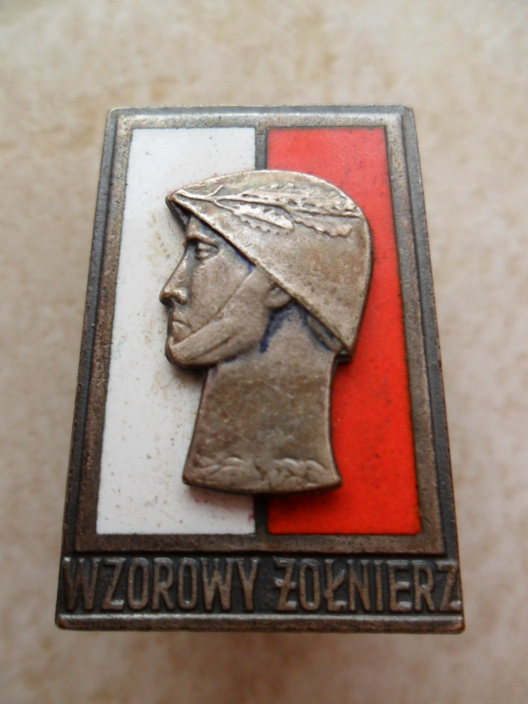 Silver badge "Exemplary Soldier"